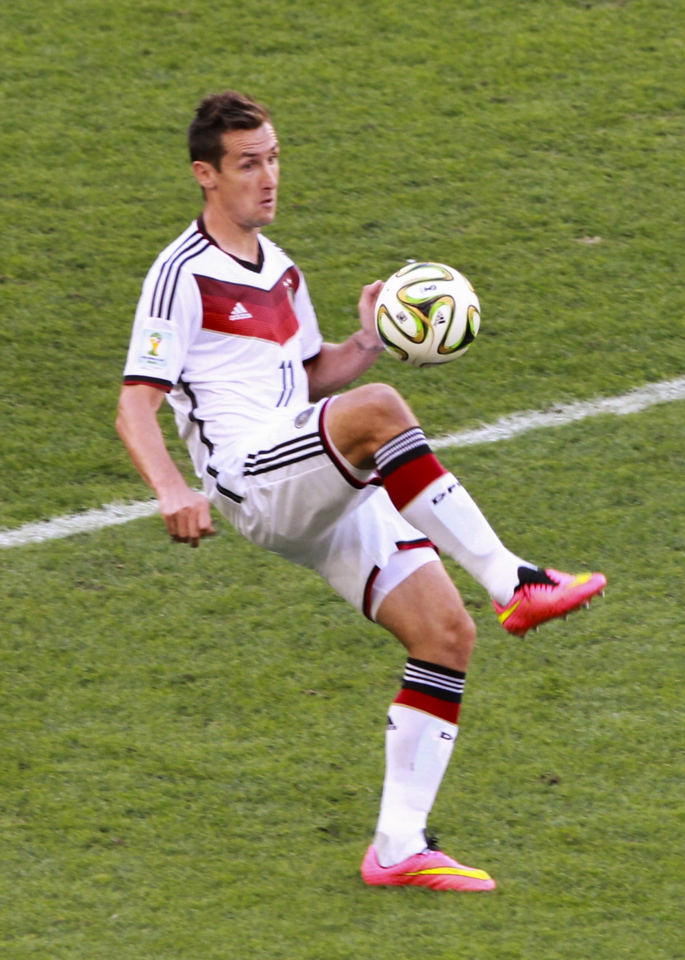 The final match of World Cup 2014 between Germany and Argentina 2014-07-13